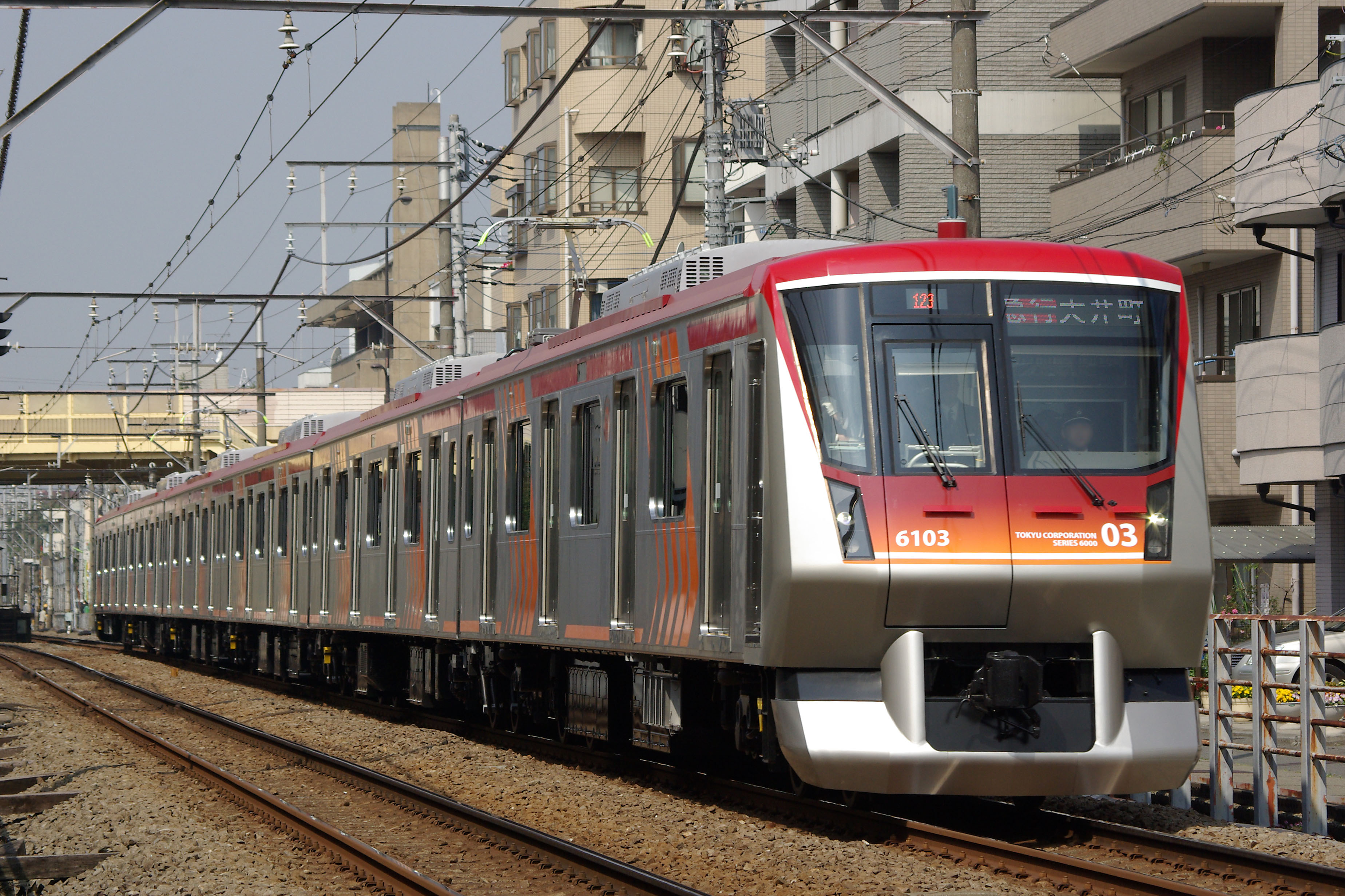 Tokyu 6000 series EMU set 6103 on the Tokyu Oimachi Line